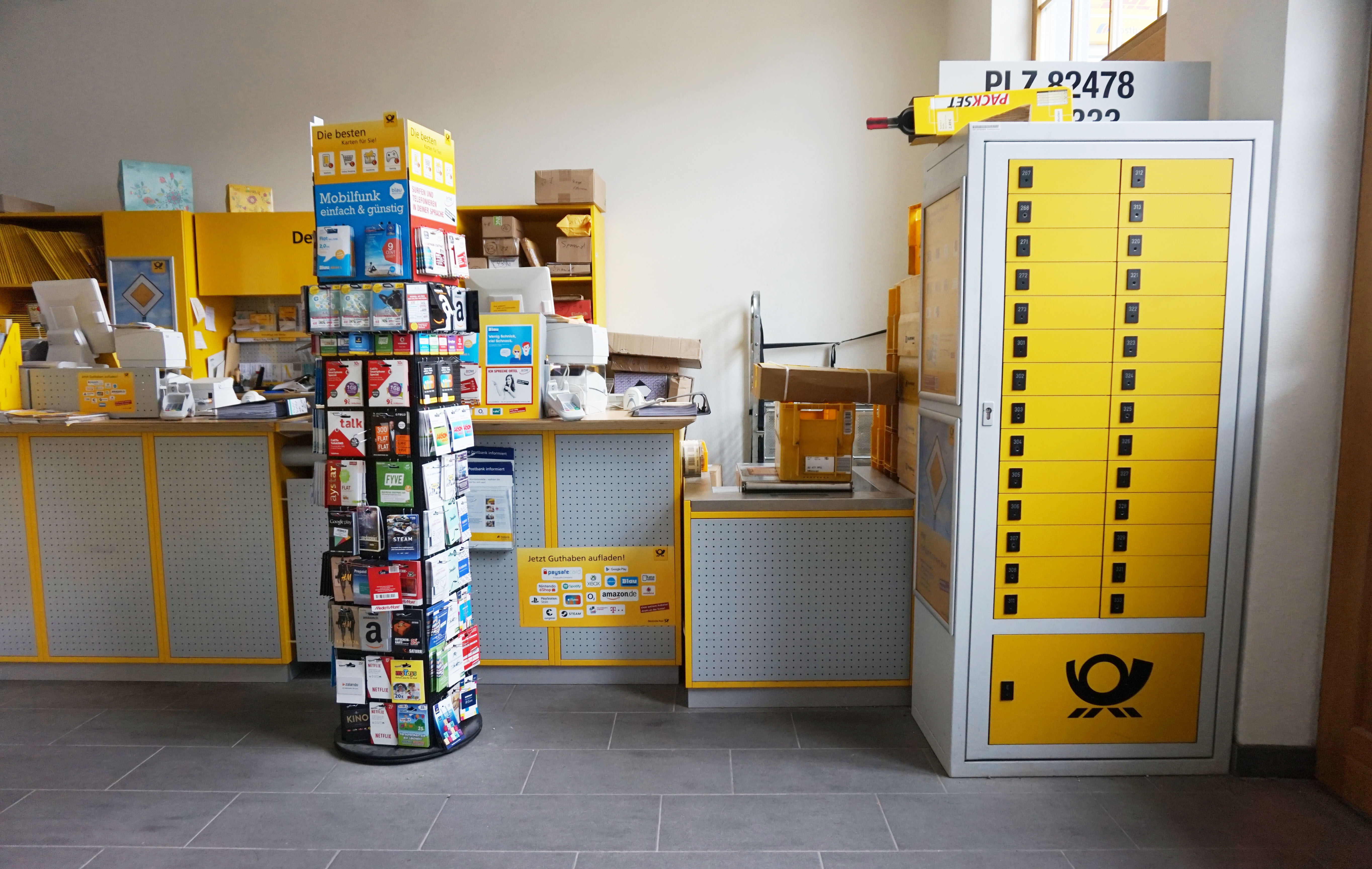 Post office in Mittenwald train station.This photograph was taken with a Sony ILCE-5000